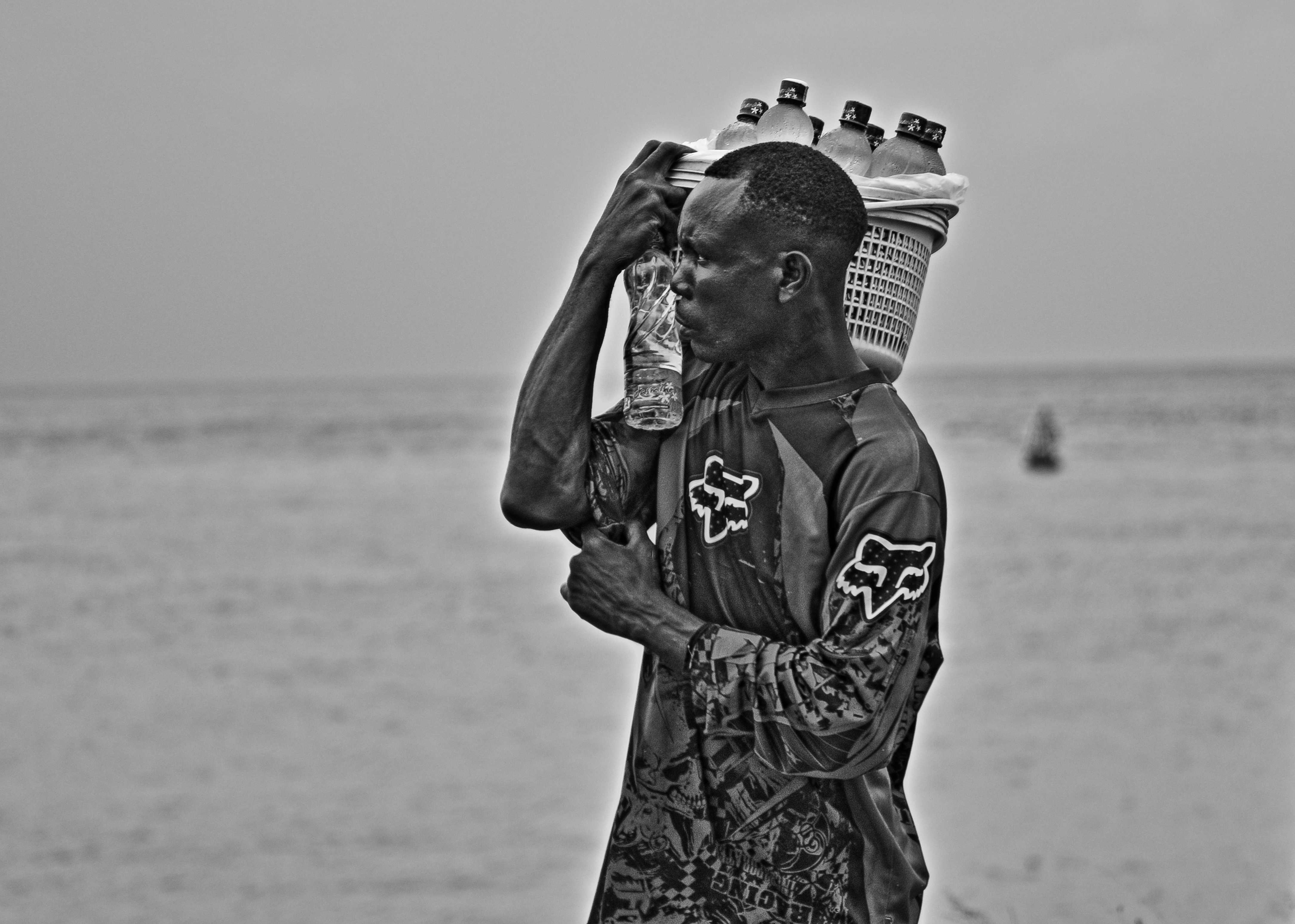 A water vendor looks for customers at Mama Ngina Drive. Mombasa, Kenya. This is an image of "African people at work" from Kenya